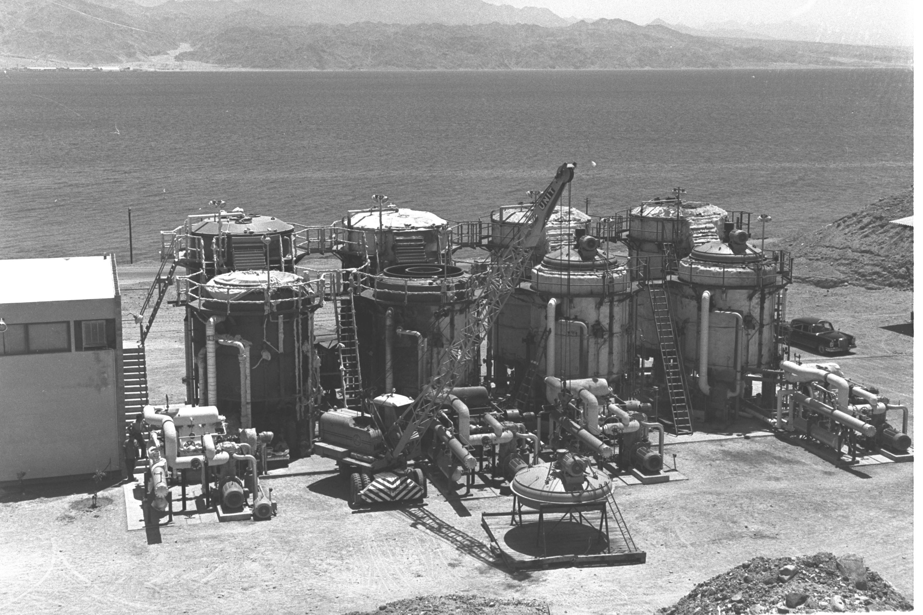 VIEW OF THE ZARCHIN DESALINATION PLANT ON THE RED SEA IN EILAT.